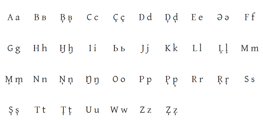 Nenets latin alphabet of 1931